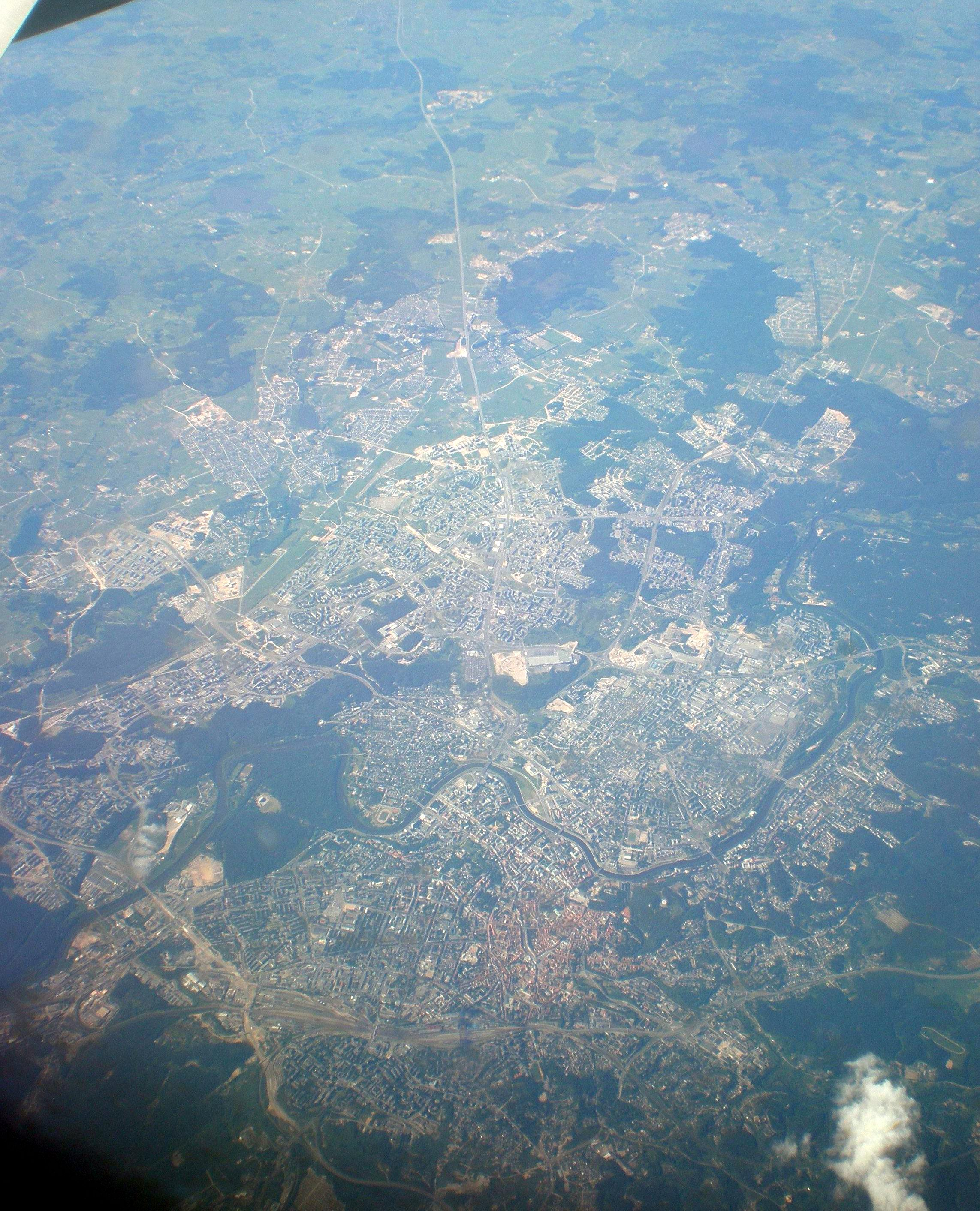 Aerial view of Vilnius, capital of Lithuania as seen from Air France flight HKG-CDG.